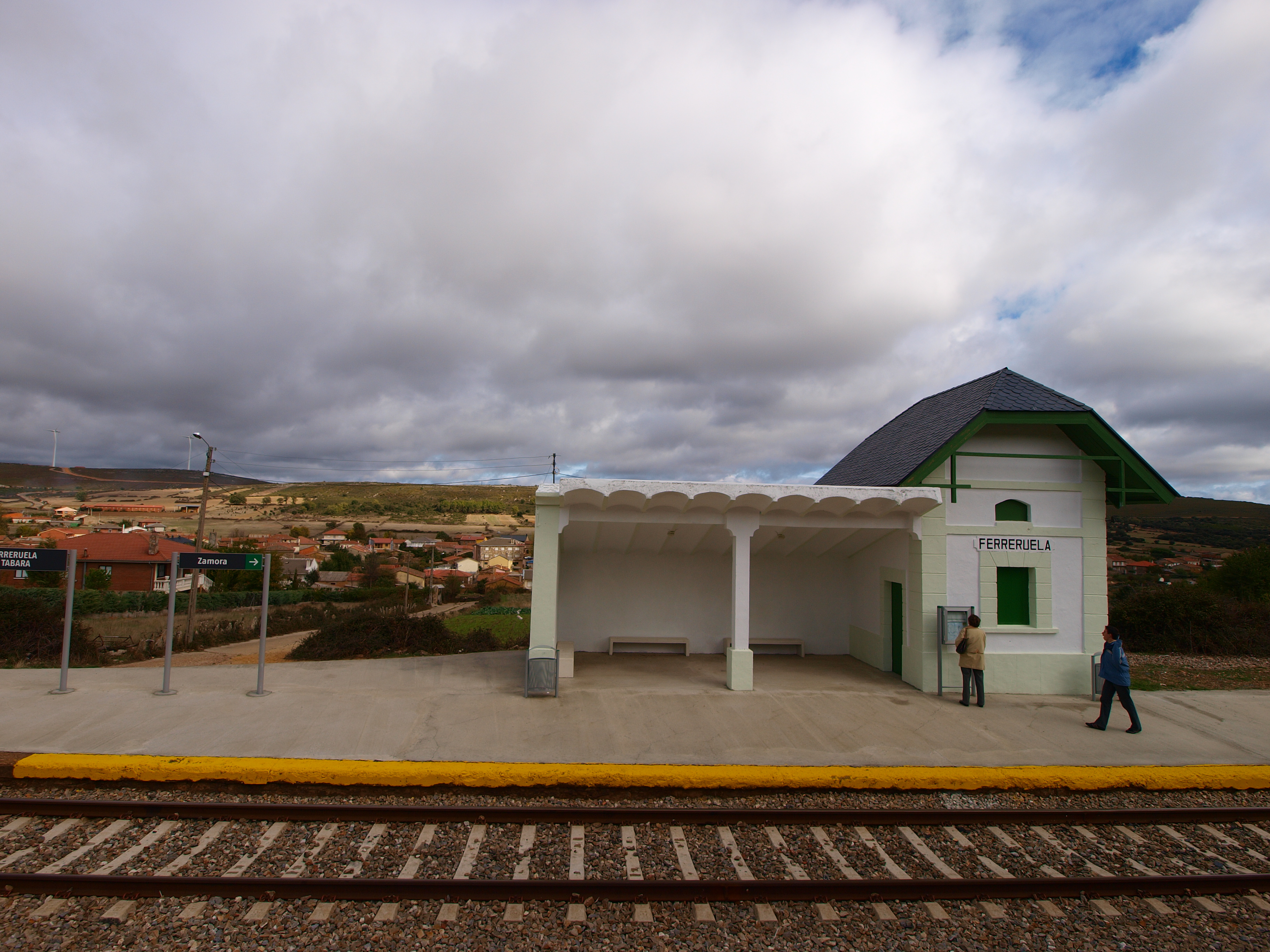 The railroad station in the spanish village of Ferreruela de Tábara, province of Zamora